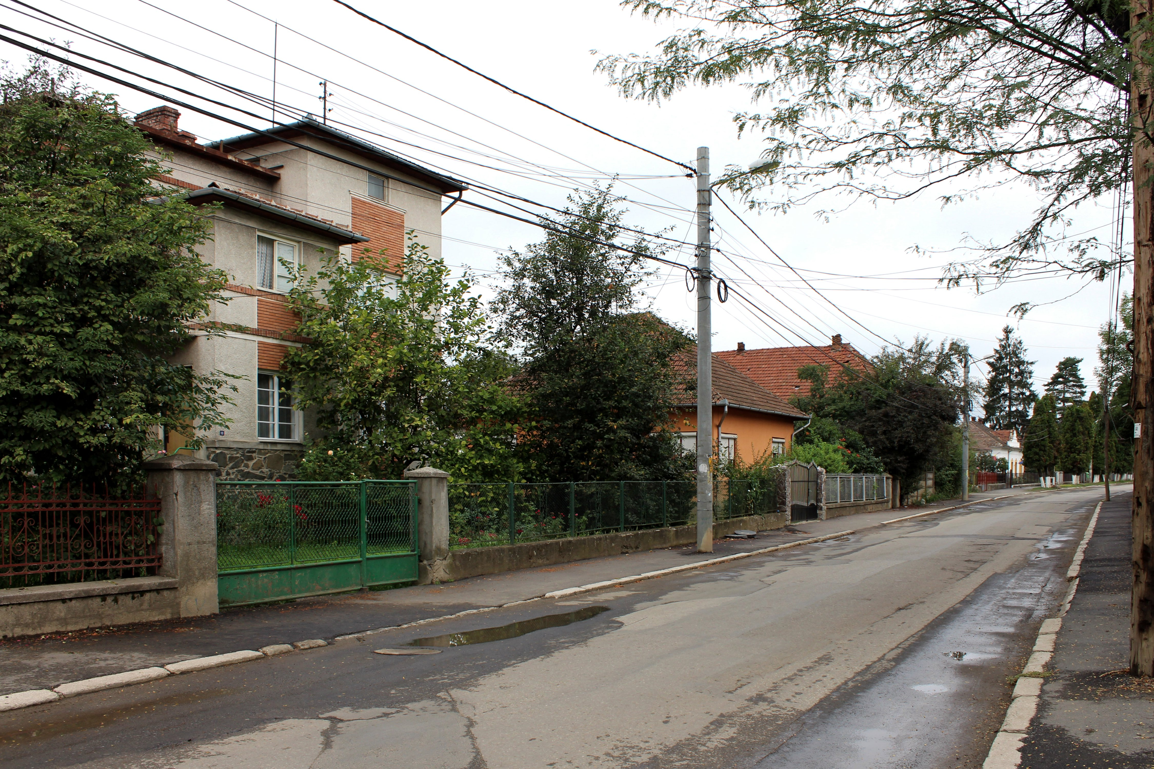 Horea Street no. 13-29 in Brad, Romania